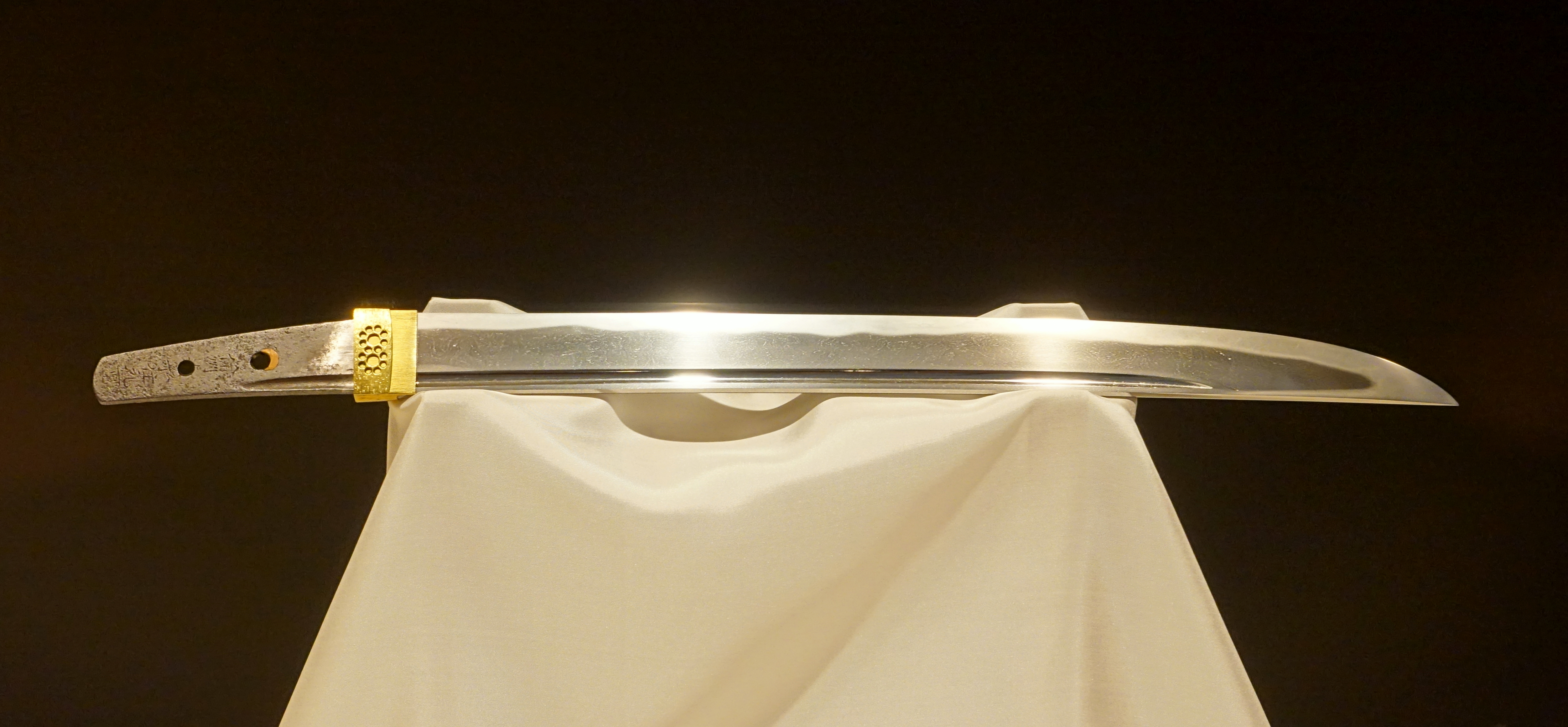 Exhibit in the Tokyo National Museum - Tokyo, Japan.